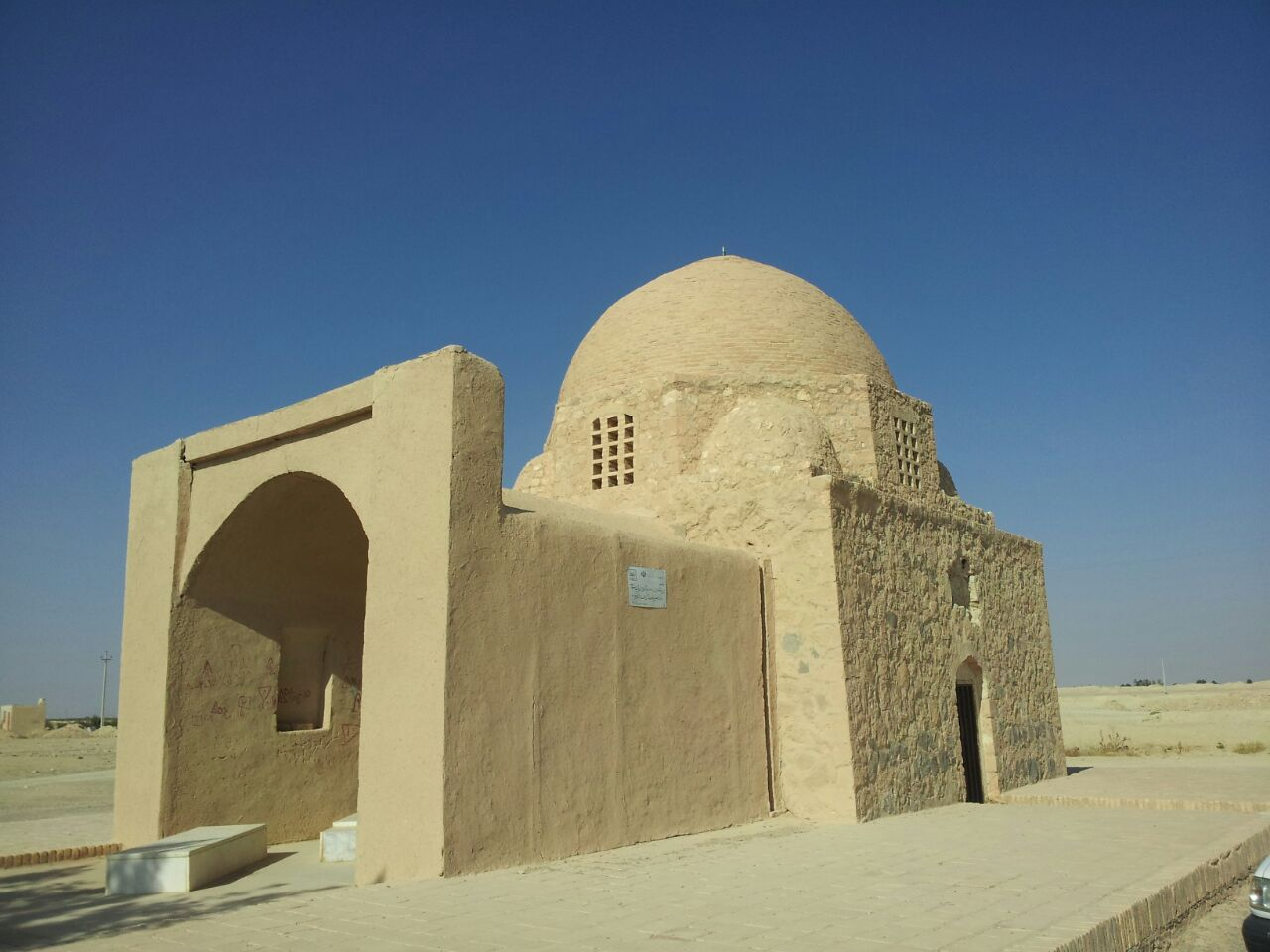 Hag stone dome